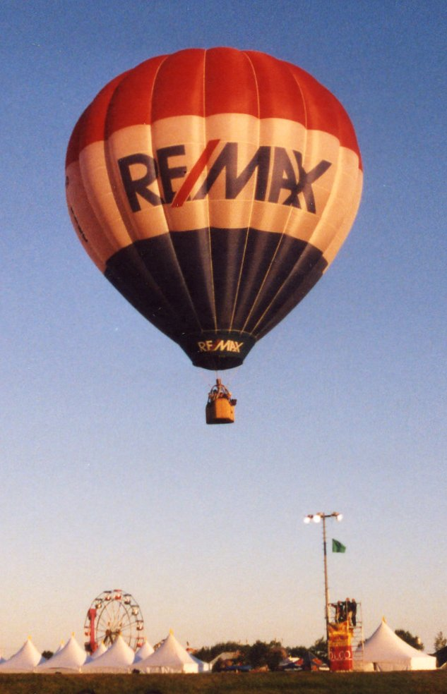 Re/Max hot air balloon shortly after launch at a small balloon festival outside of Quebec City. Photo taken in August 2005.